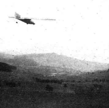 Hannover Greif flying at the 2nd Rhön contest, 1922